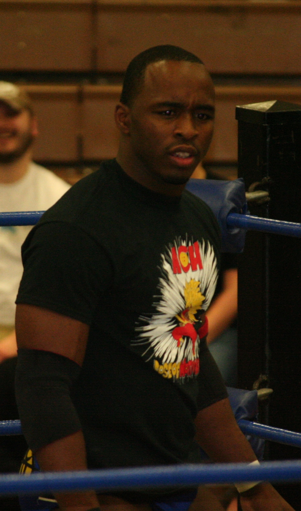 Professional wrestler ACH during the National Pro Wrestling Day.